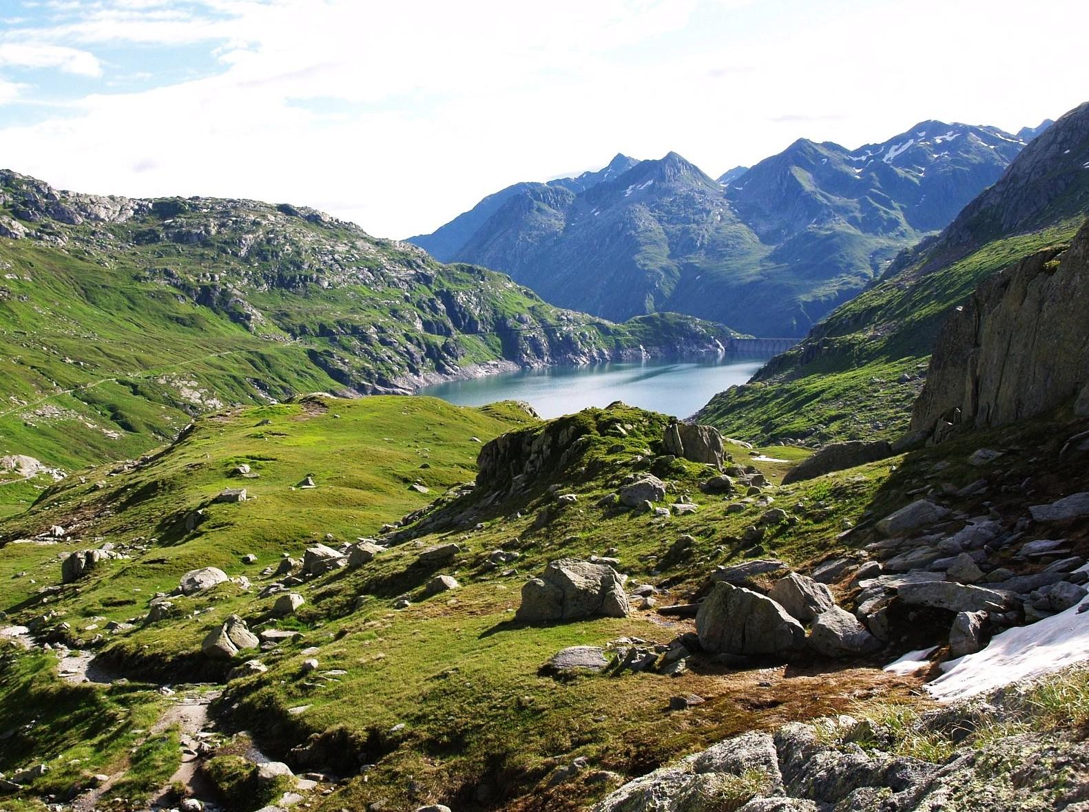 Lake Lucendro, canton of Ticino.